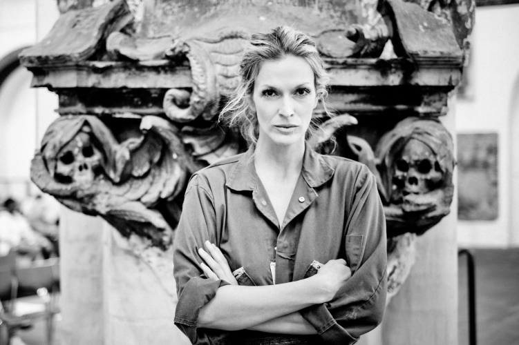 Portrait of Mia Florentine Weiss, 2019